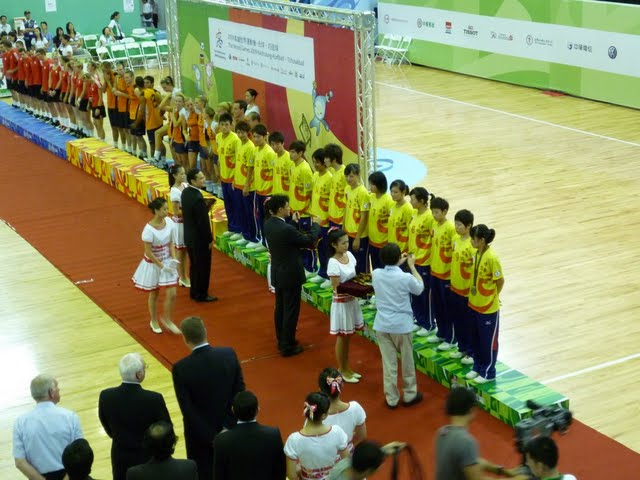 Korfball Podium.The World Games 2009 Kaohsiung